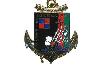 Regimental badge of the 2nd Marine Infantry Regiment, BATTLE GROUP RICHELIEU 2010 2011.